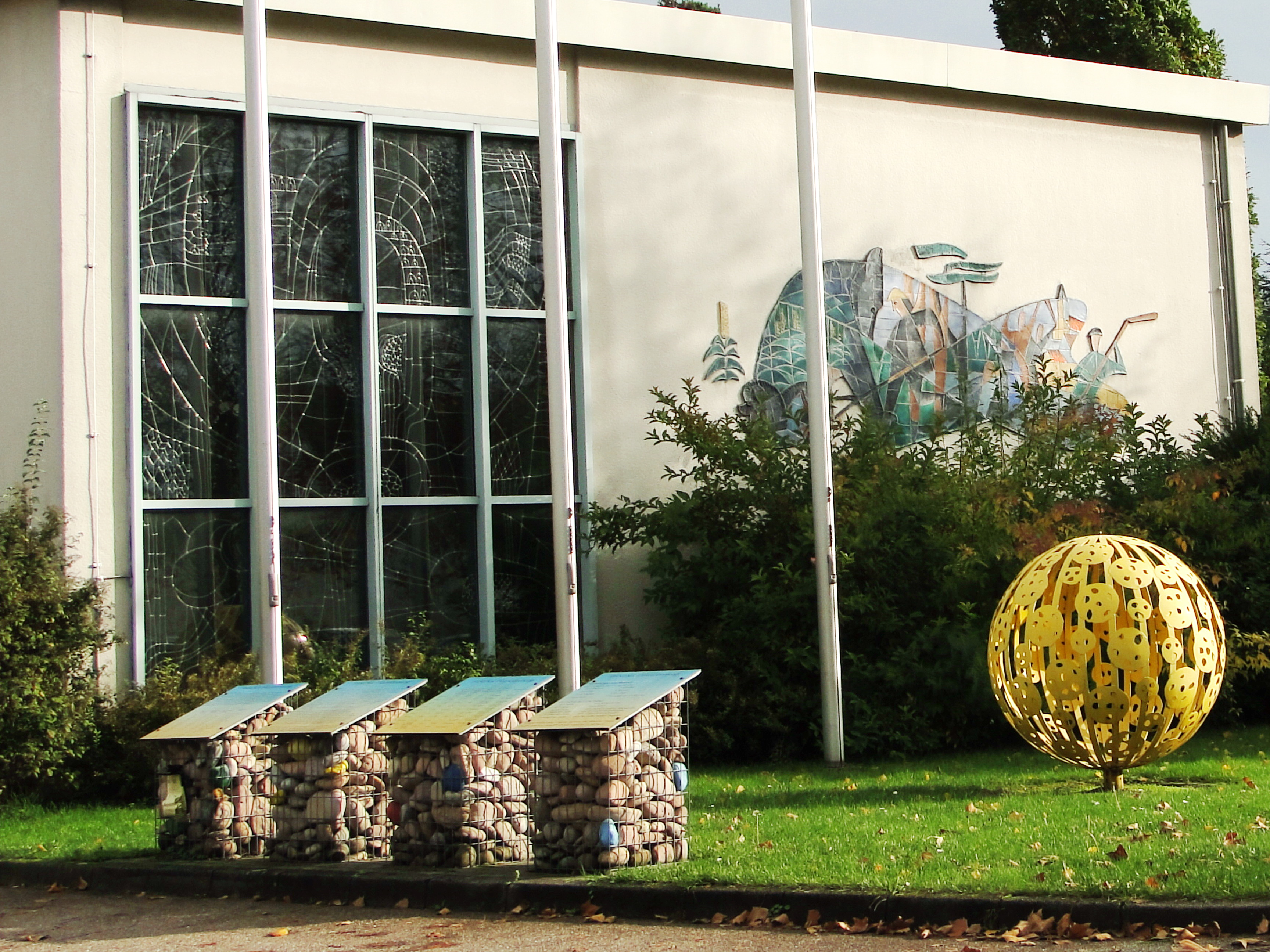 Durmersheim (Germany), sun model of the Planet Trail